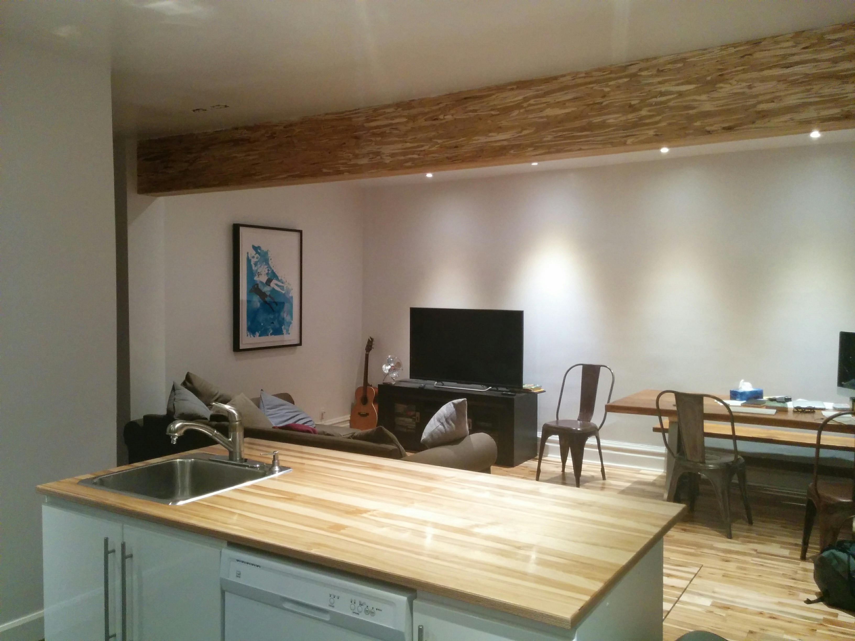 A beam of parallel strand lumber, commercially known as Parallam. The 17ft x 19in x 7.5in beam was installed in a ground-floor rental unit to replace a load-bearing wall and create an open space between the living room and kitchen.